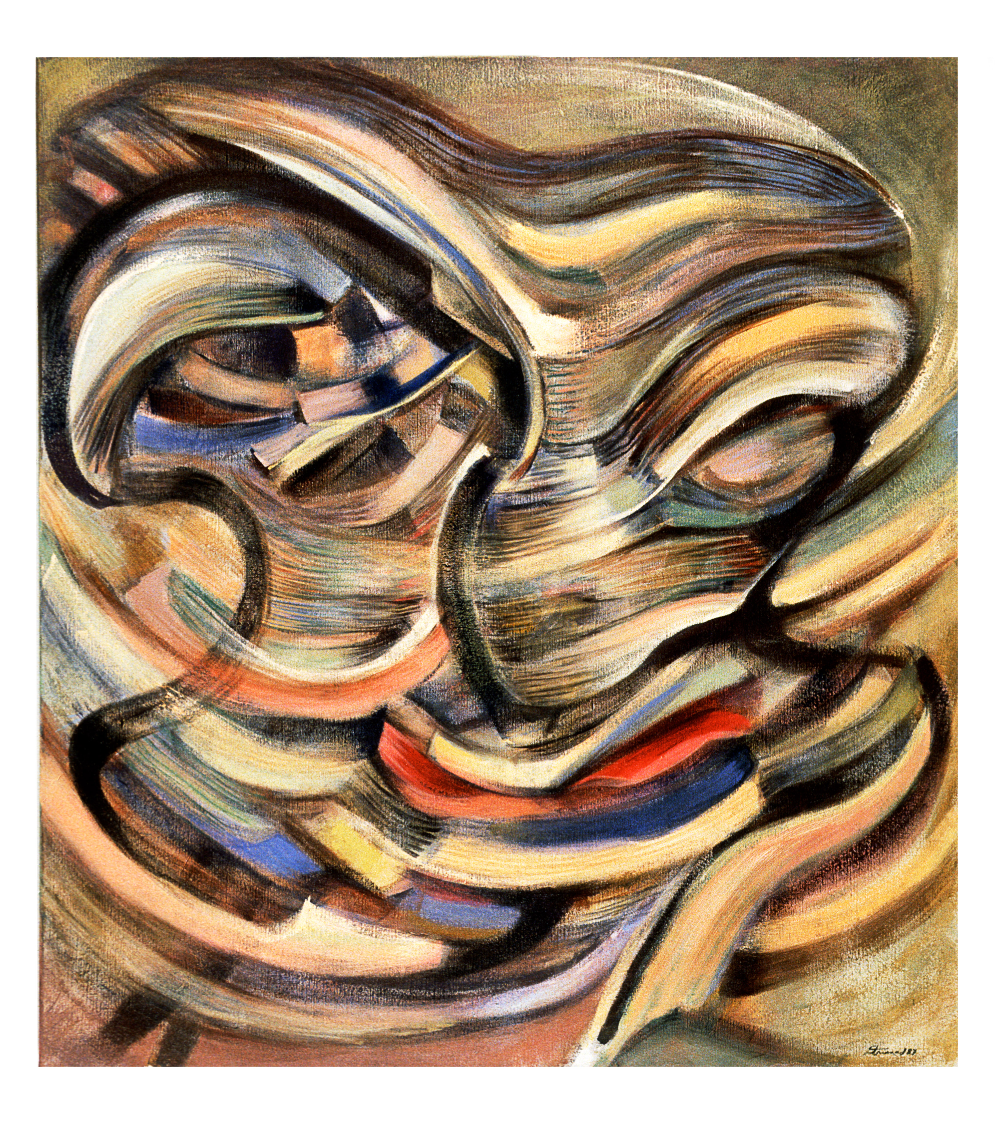 Painting by Gladys Triana